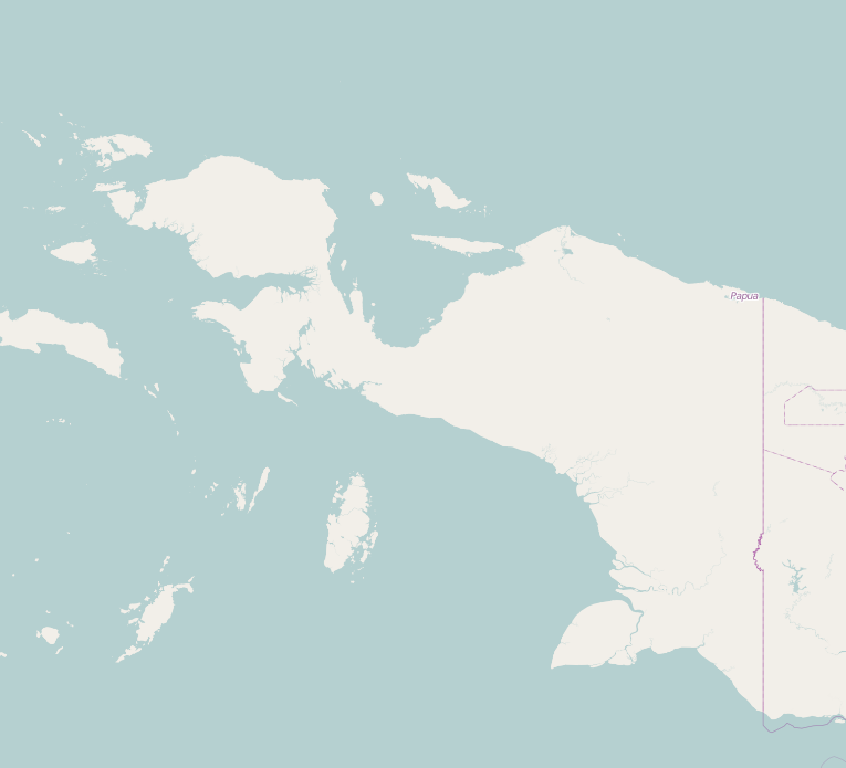 Map of West Papua, Indonesia Geographic limits of the map: N: 2.11° S: -9.99° W: 128.93° E: 142.31°